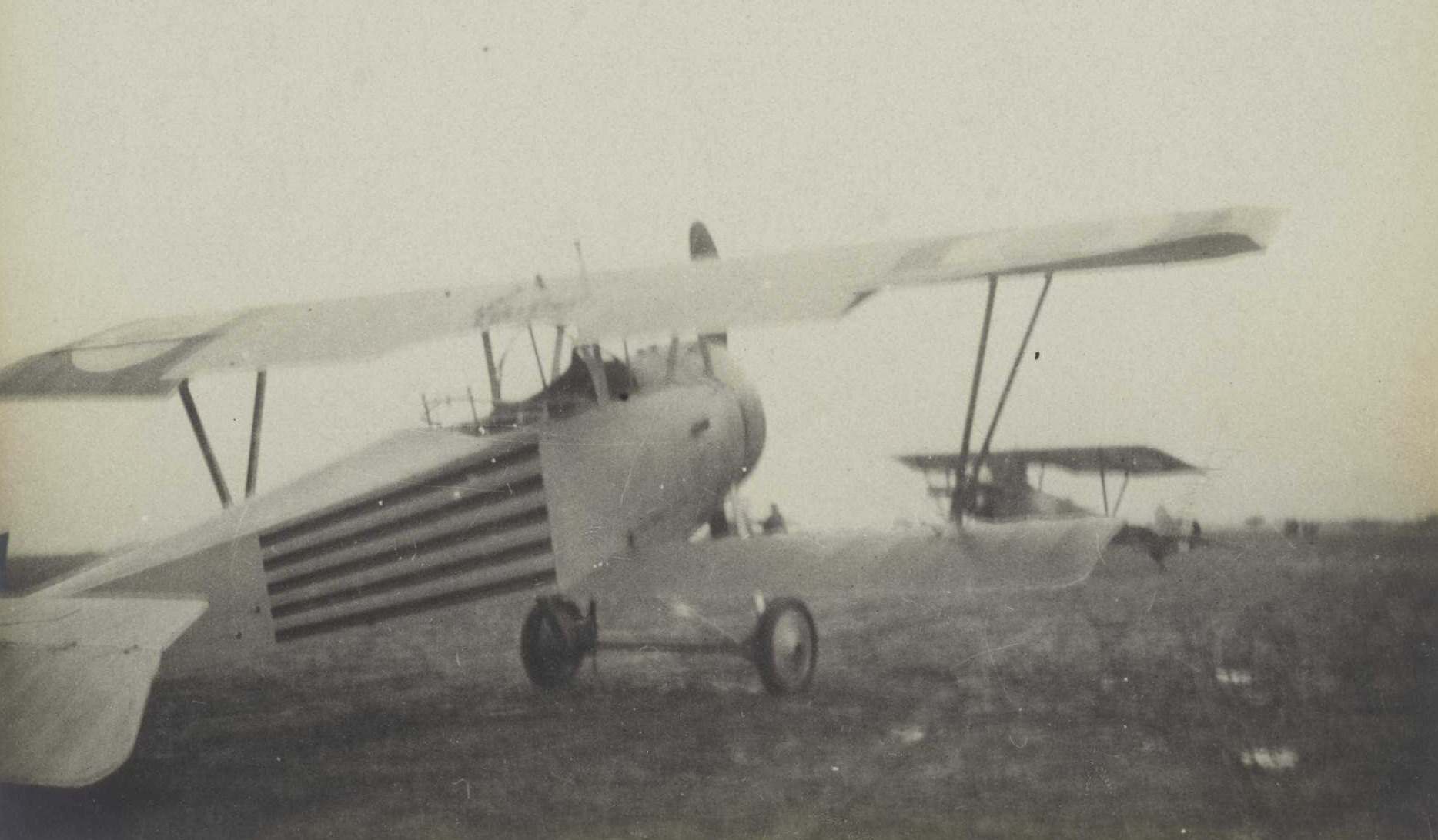 French Nieuport 12bis of Escadrille N69 at the Somme